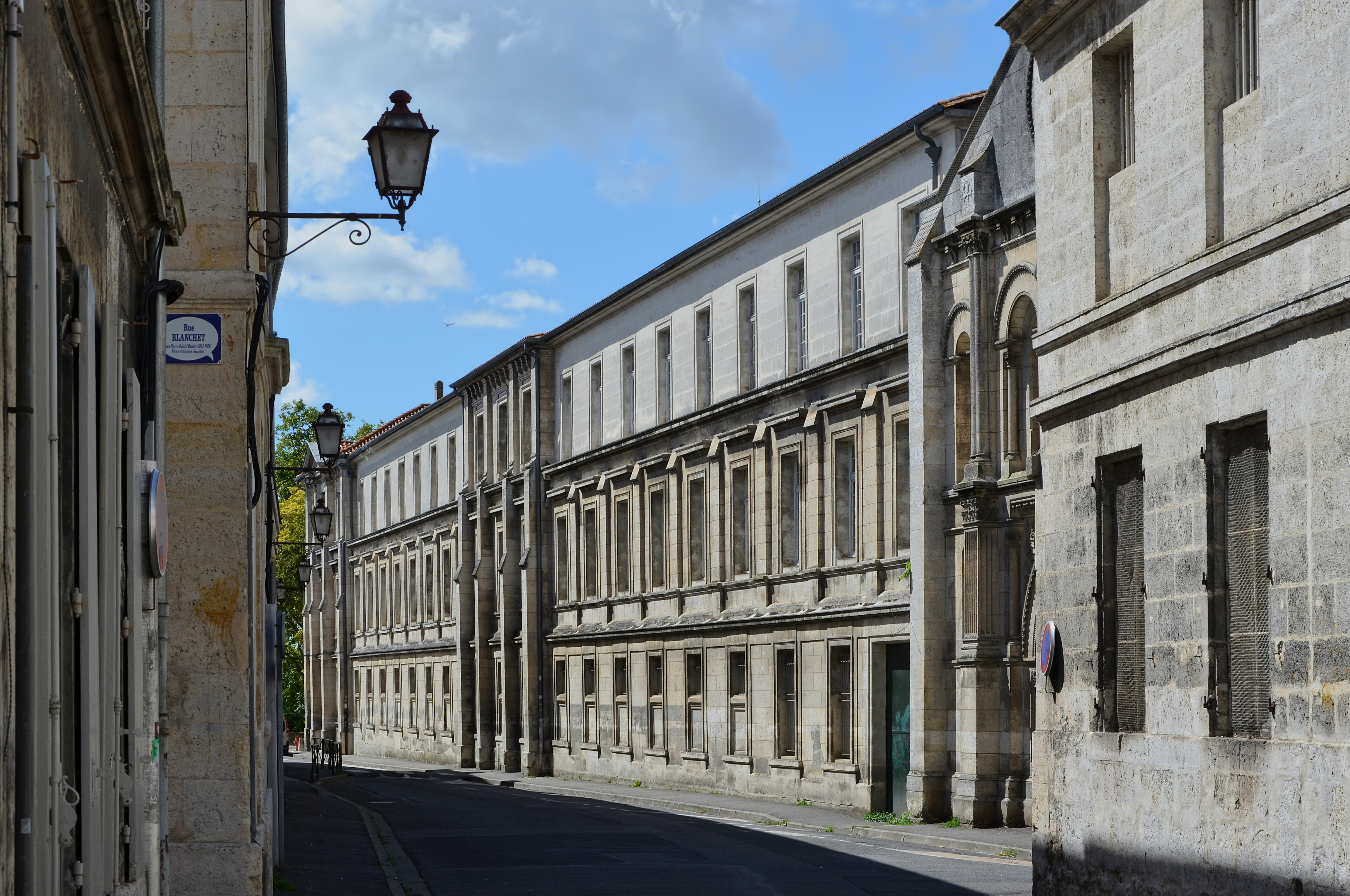 Raws of windows of the southern facade of lycée Guez-de-Balzac, Angoulême, Charente, France.